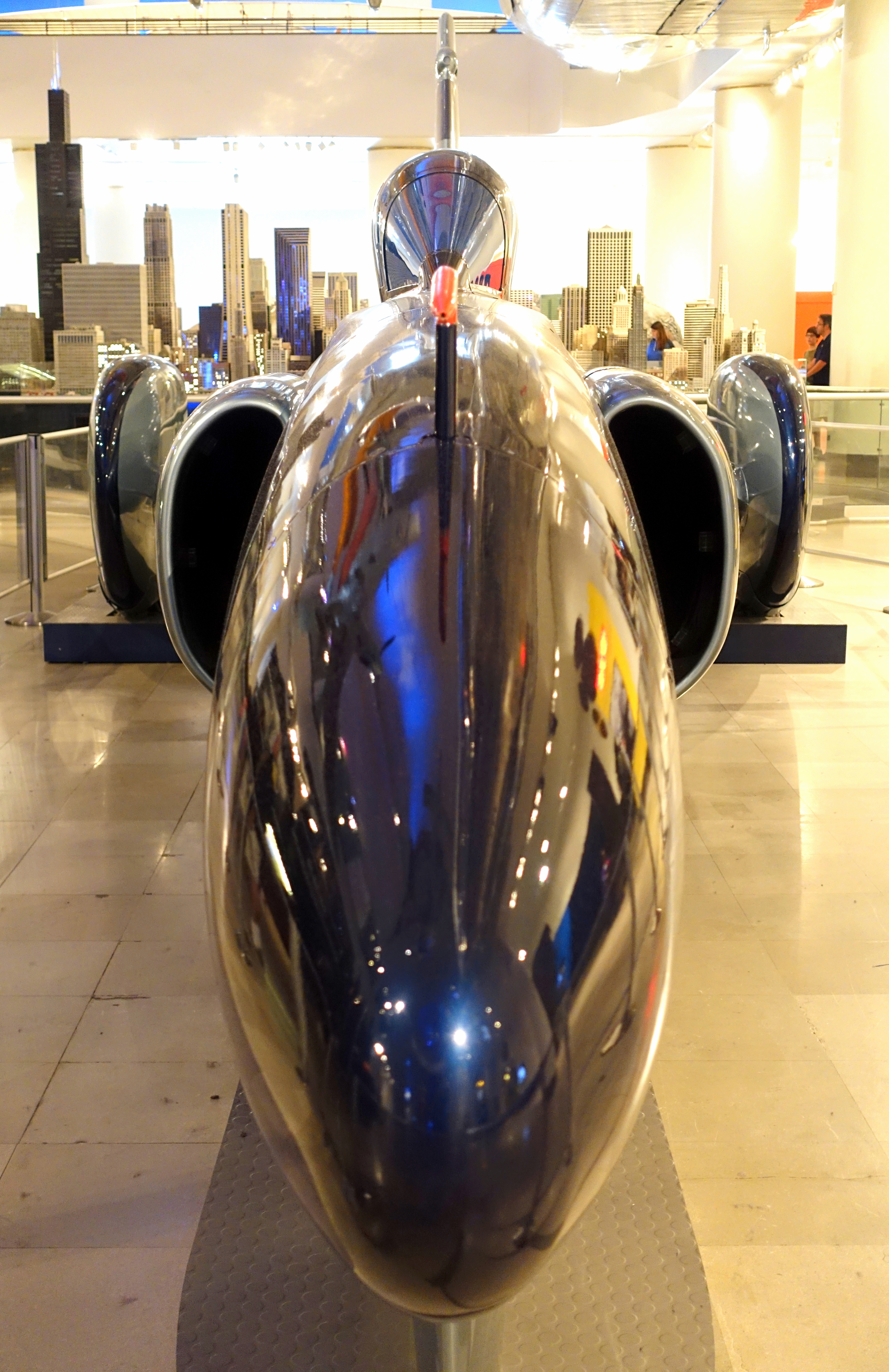 Exhibit in the Museum of Science and Industry, Chicago, Illinois, USA.